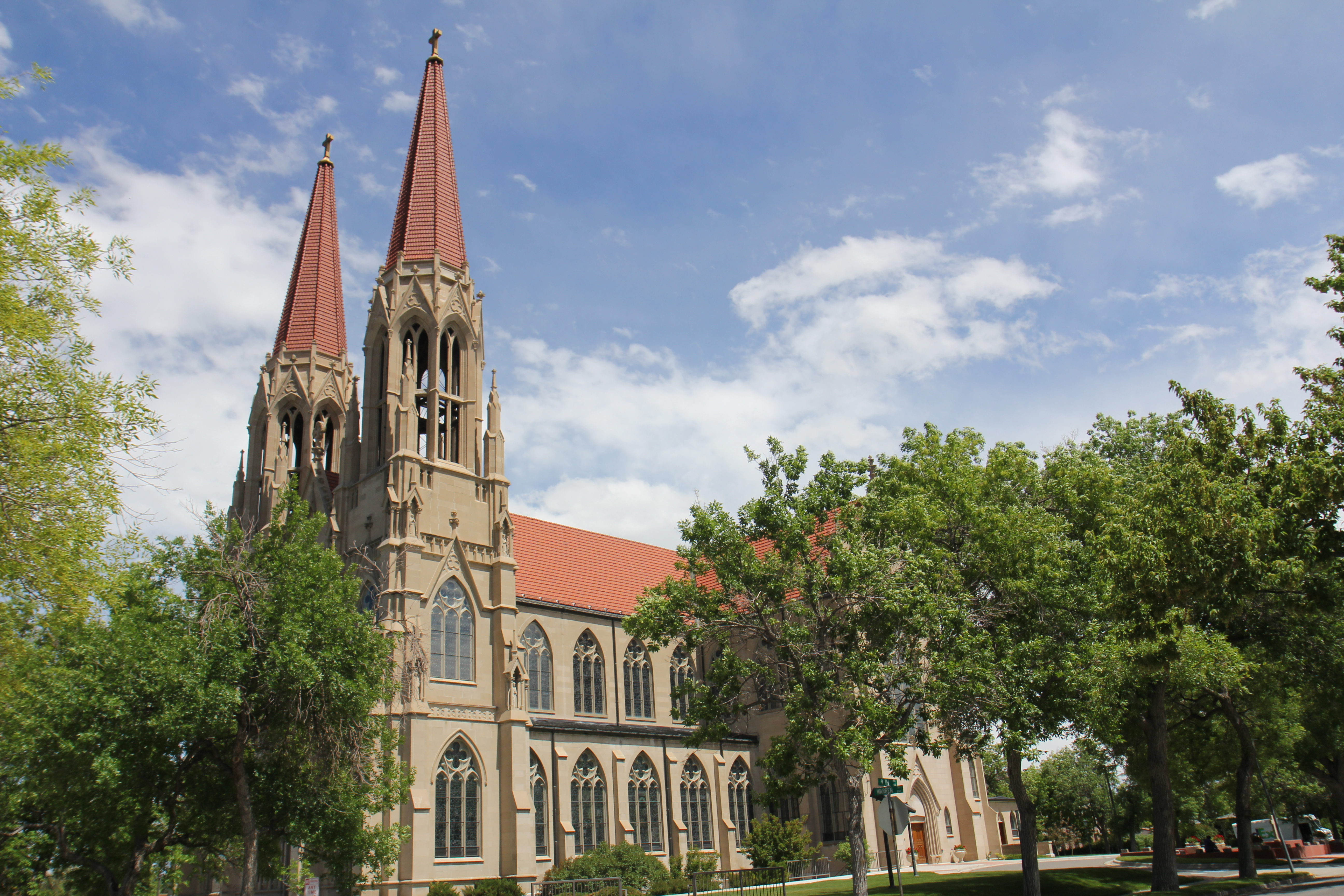 Exterior of the Cathedral of St. Helena in Helena, Montana.